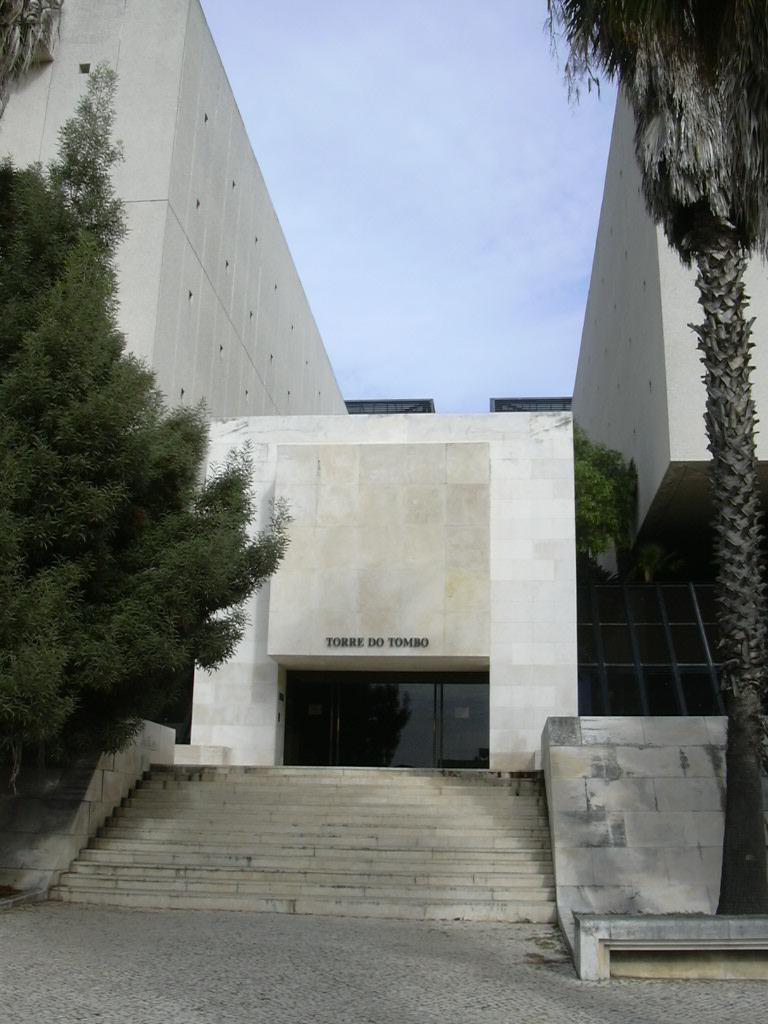 The main façade of the "Torre do Tombo" (National Archives of Portugal).